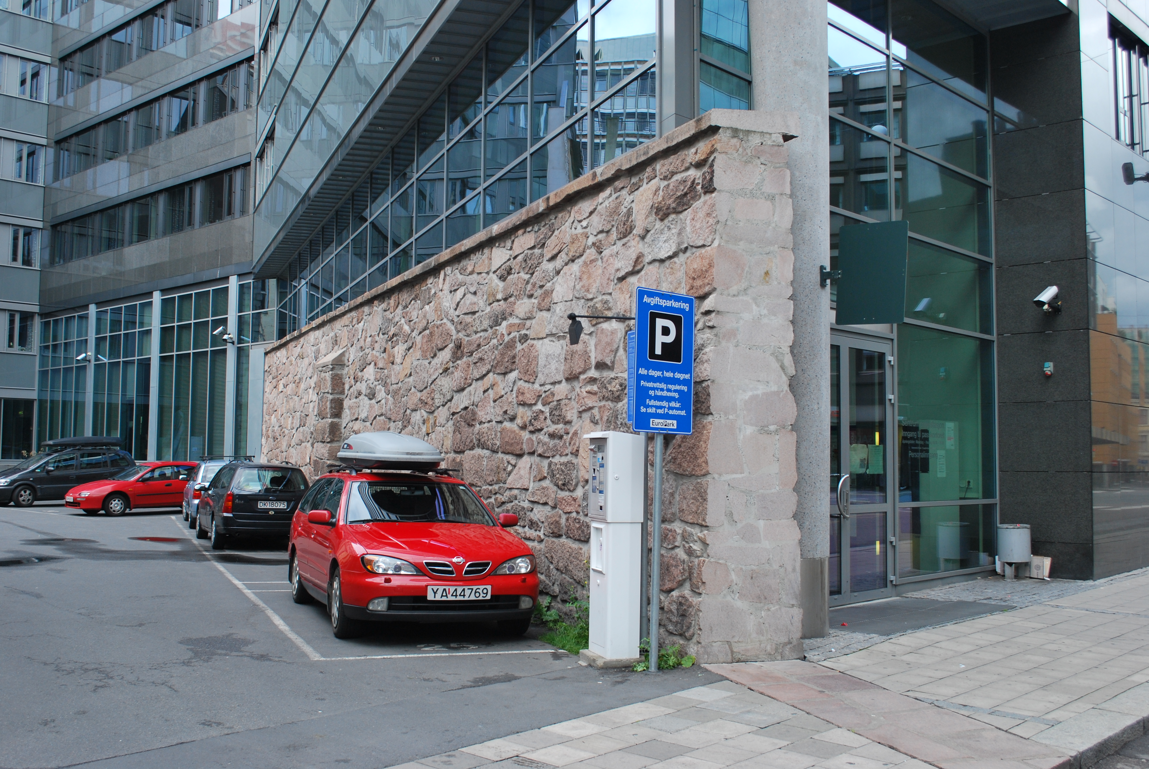 Remaining part of wall from Tukthuset, prison built in the 18th century, Calmeyers gate, Oslo